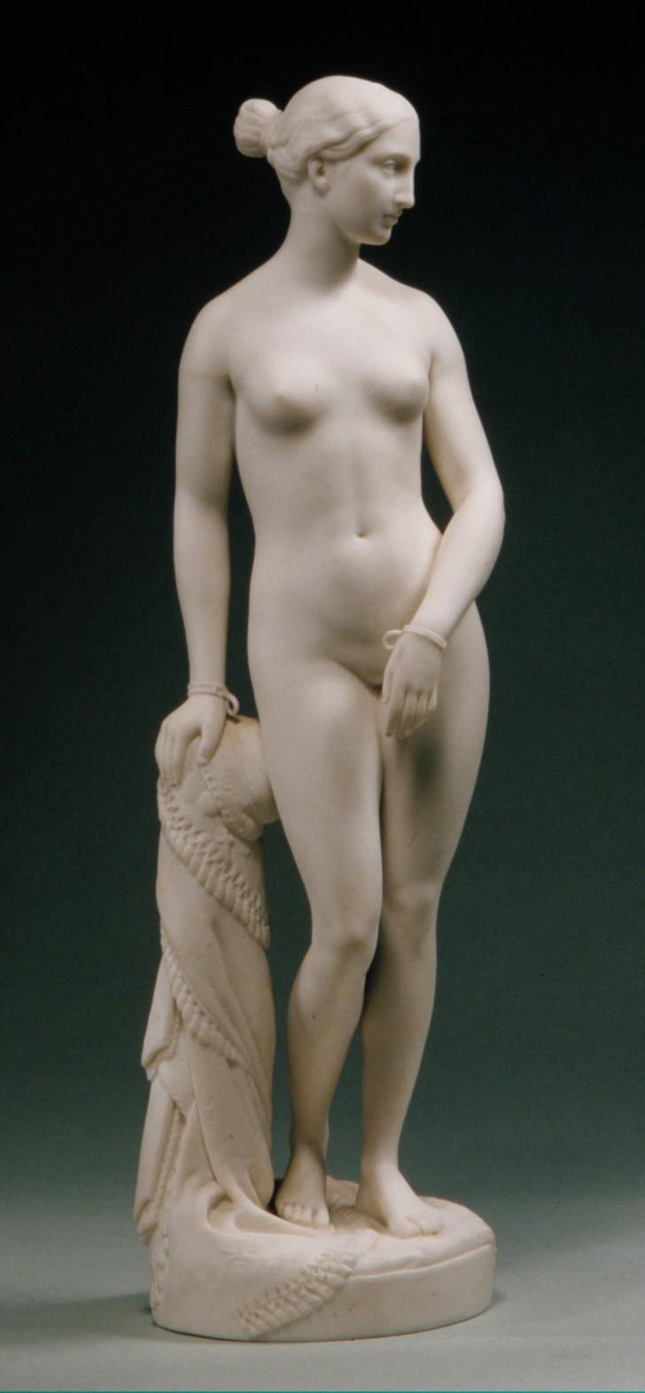 American; Statuette; Ceramics